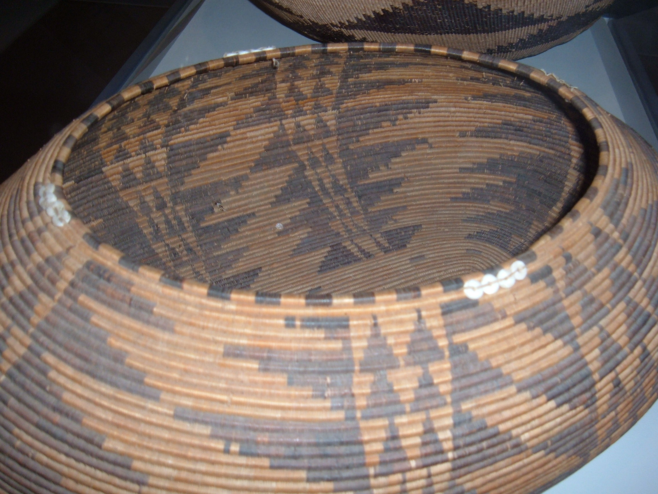 Pomo basket (19th century) — made of mountain birch, redbud, clam shells, and beads, California. On display at the Iris & B. Gerald Cantor Center for Visual Arts on the Stanford University campus in Stanford, California.